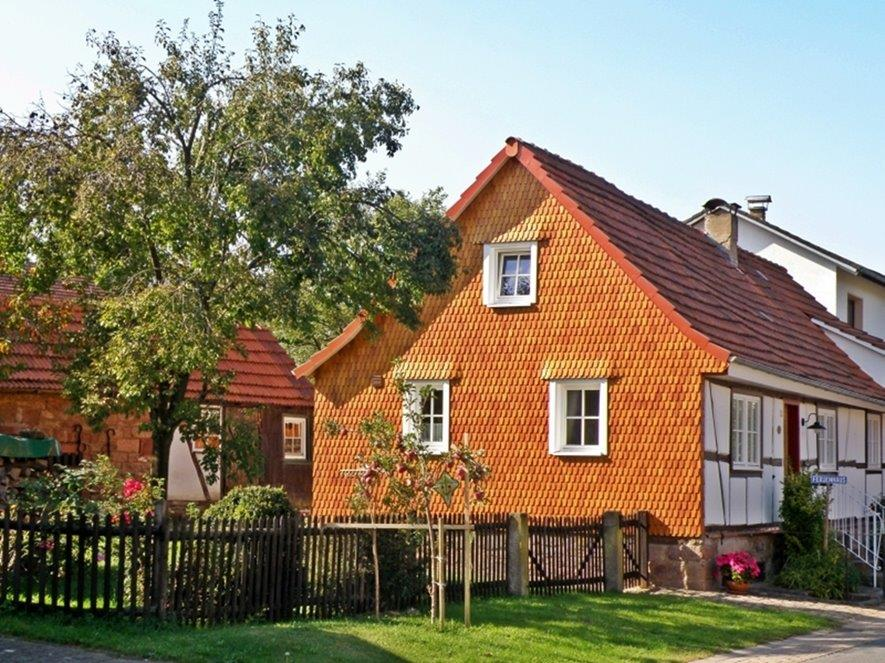 Würzberg Zum Römerbad 17